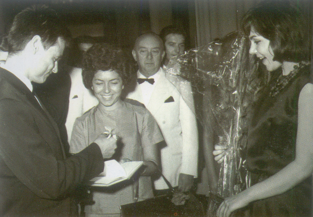 Leyli Golestan in Venice Film Festival. this is considered in public domain now because its copyright condition has been already expired in Iran. according to the "National law in support of authors, composers and artists" ratified in 01/01/1970 and published in 01/02/1970, the license for photographs and films after their issuing date is valid for 30 years.